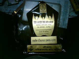 The Parikalpnaa Samman is the Blog literary award in India. It is presented by the Parikalpnaa Samay (Hindi Magzine) & Parikalpnaa Dot Com (Veb Magzine).